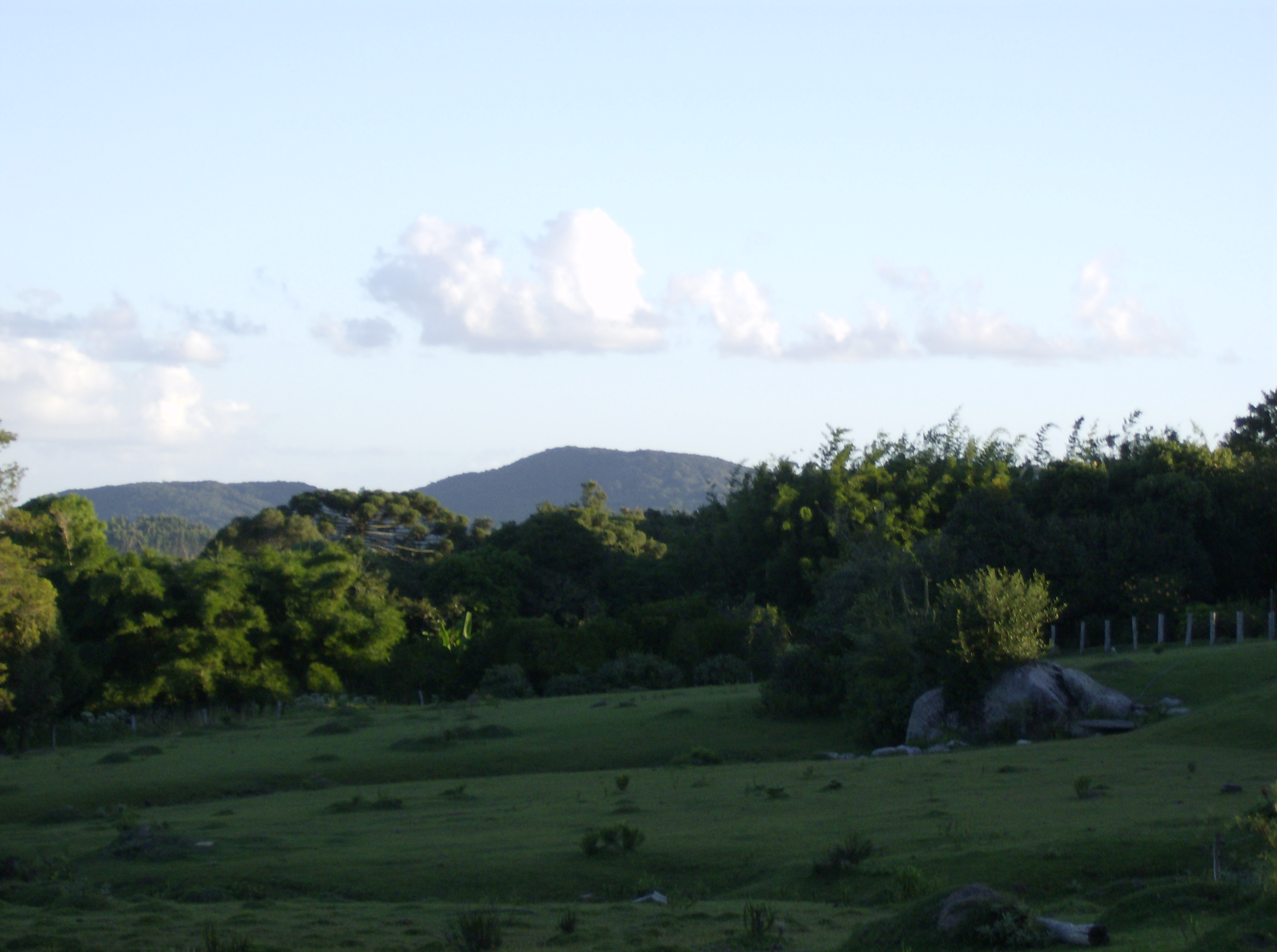 The countryside around Arroio do Padre (a town in southern Brazil)